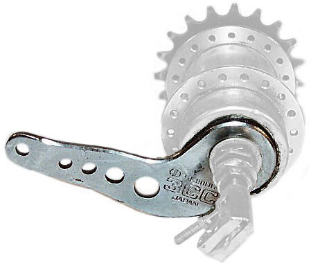 Shimano three gear hub with emphasized brake lever